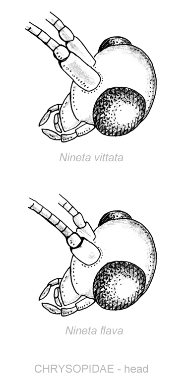 head Nineta - Chrysopidae